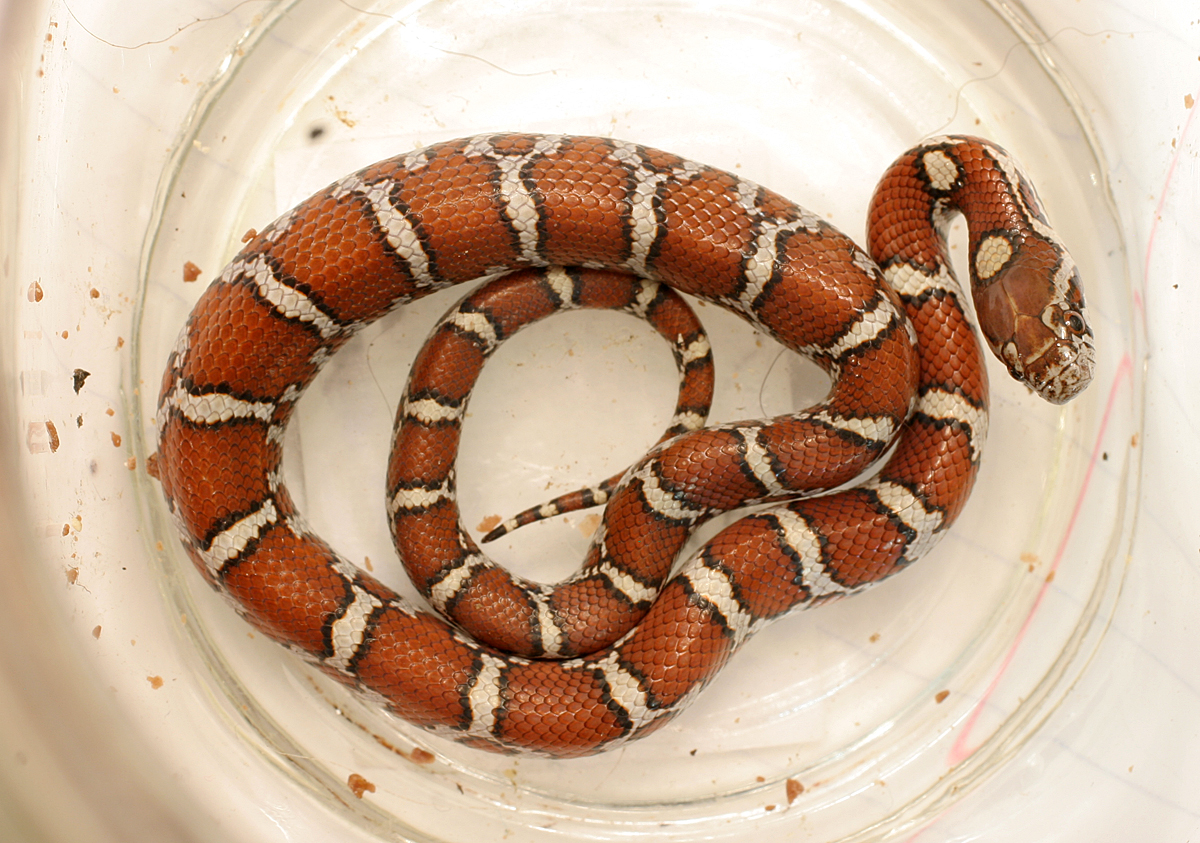 Milk Snake captured on my property. It was in the process of eating a lizard when captured. We photographed it and let it go back into the wild.